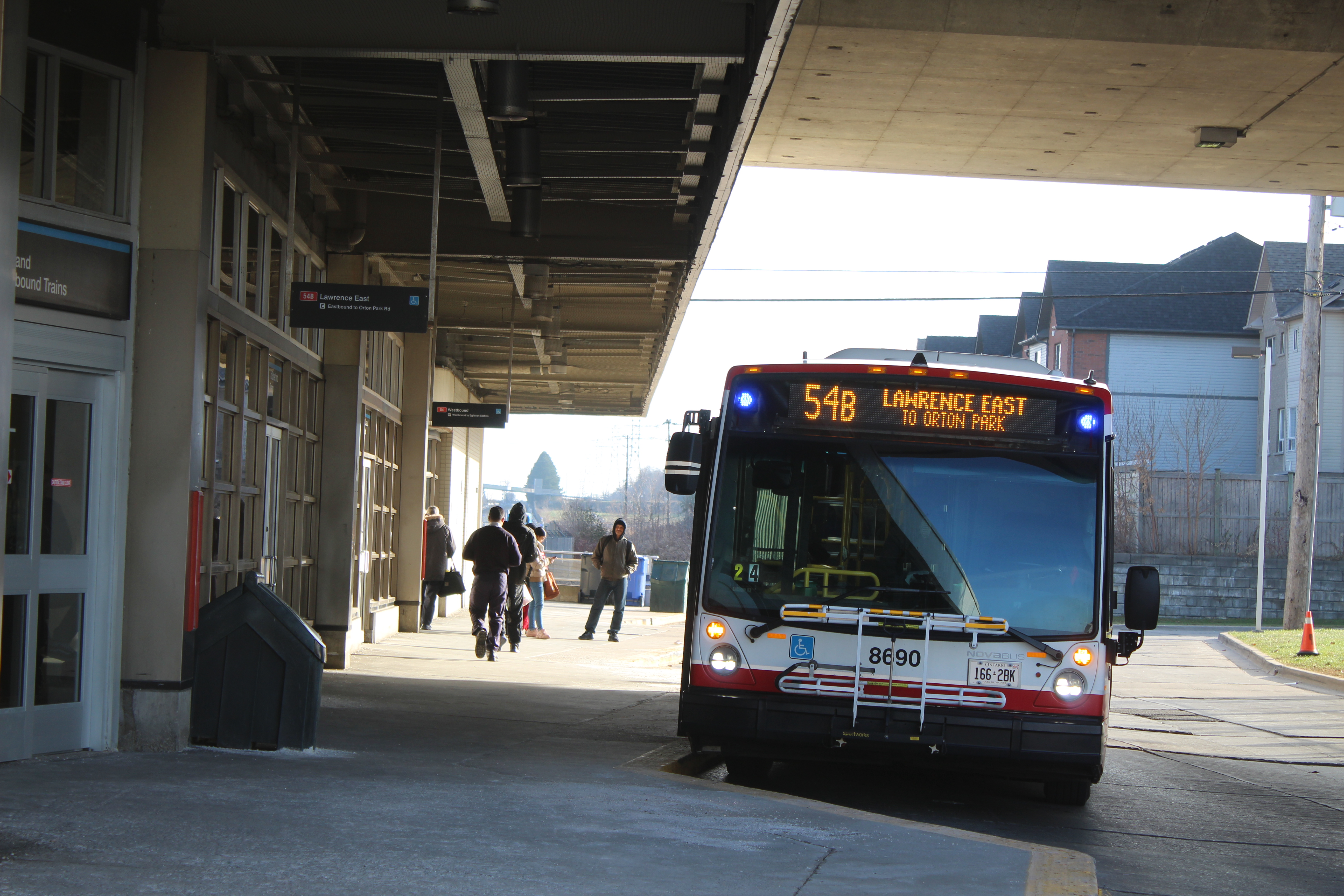 Lawrence East bus platform, with a Nova LFS boarding passengers.